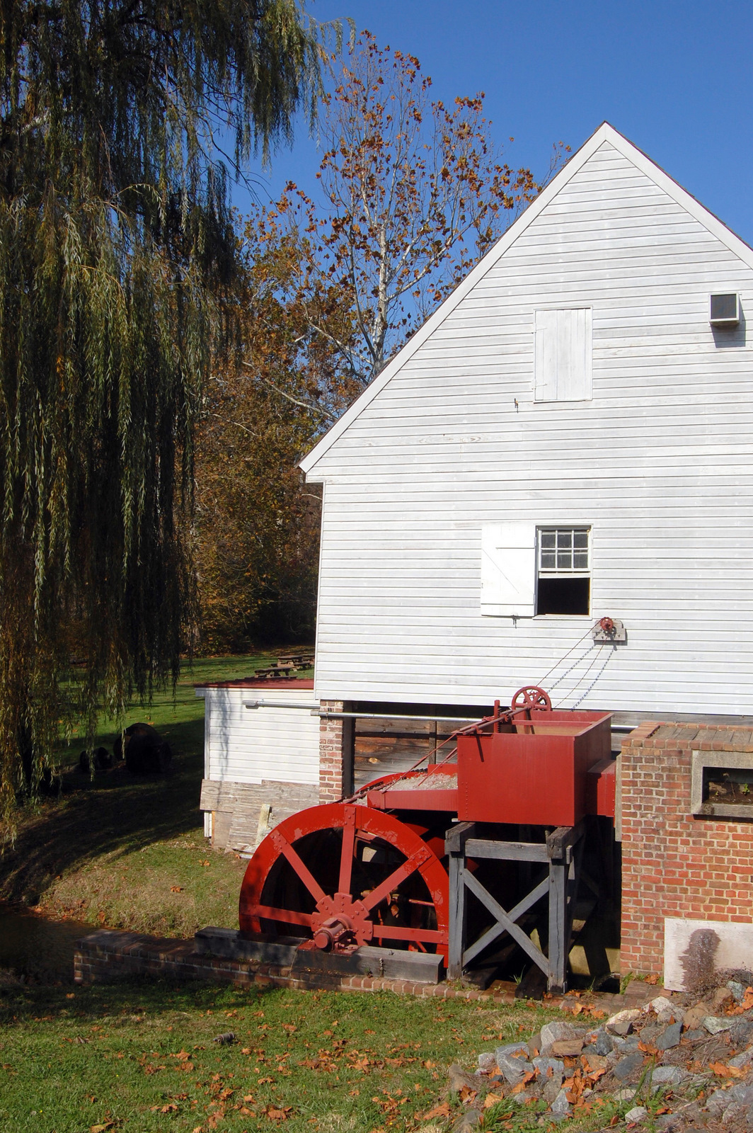 Wye Mill